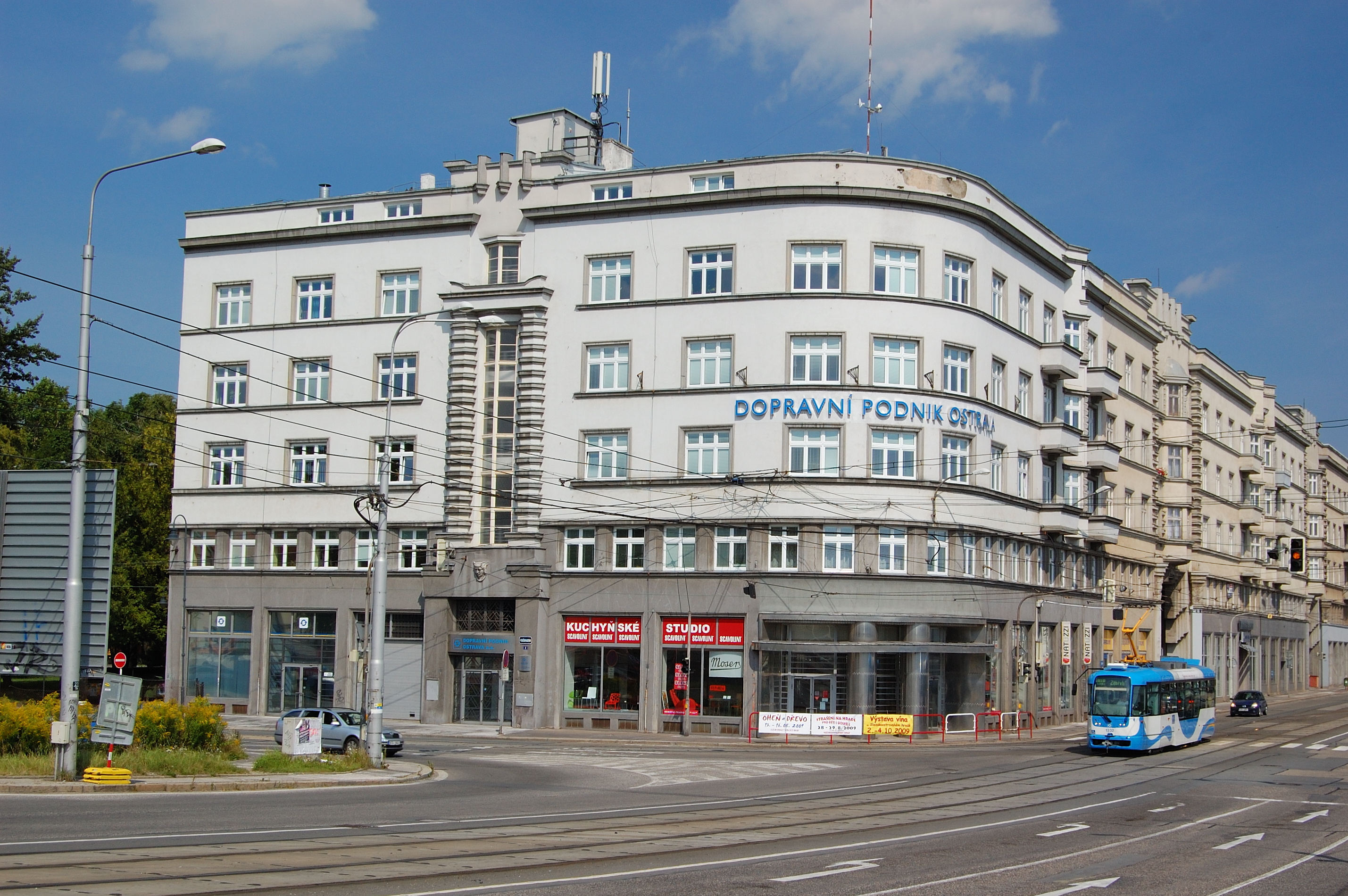 A headquarters of the Public transport company of Ostrava, Czech Republic.